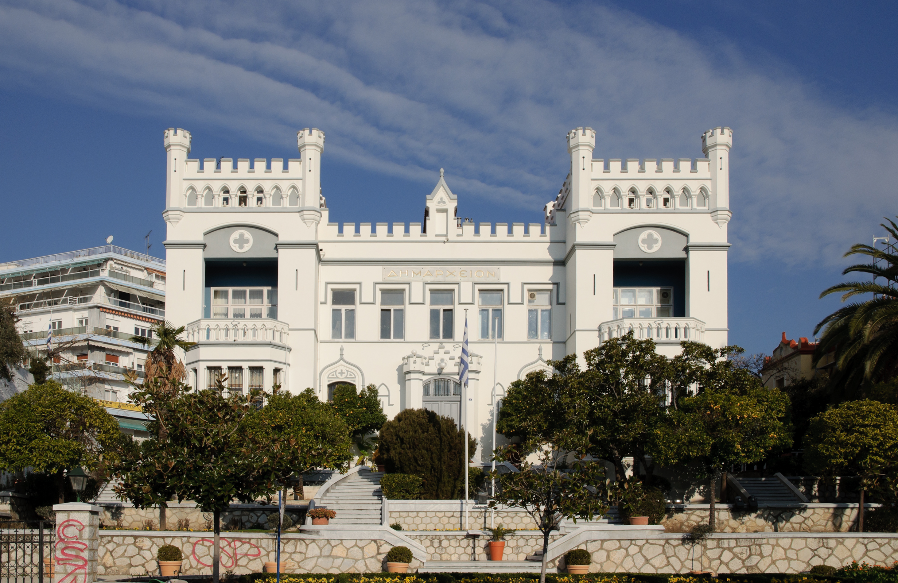 Kavala Town Hall, Greece.